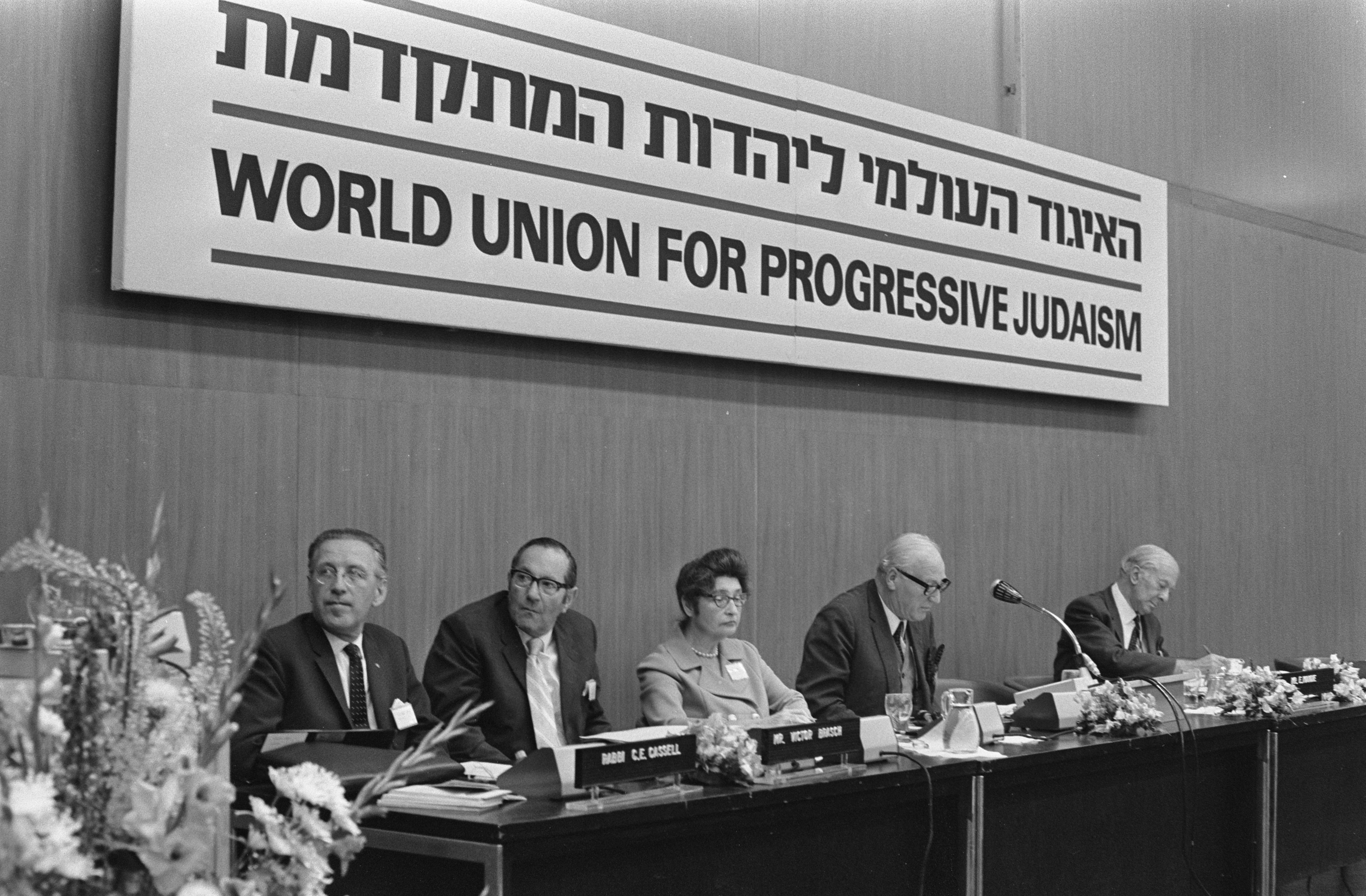 World Union for Progressive Judaism, Amsterdam 1970. Left to right: Rabbi Charlie (Charles Elias) Cassell (Rhodesia) (1939-2014), Victor Brasch (South Africa) , mrs. Kokotek (Great Britain), Mr E. Mandie (Australia), Rabbi H.K. Emanuel (New Zealand). Date: 3 July 1970